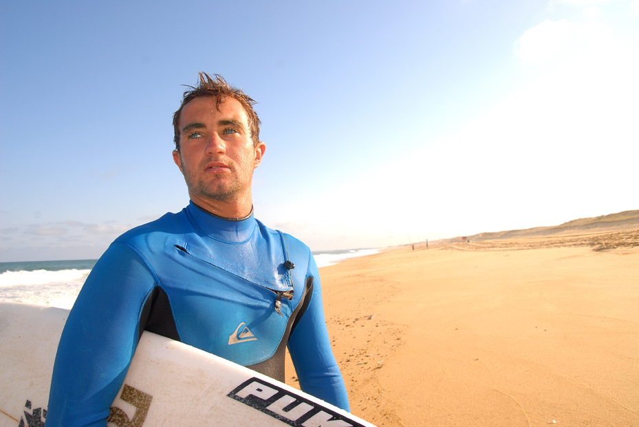 portrait